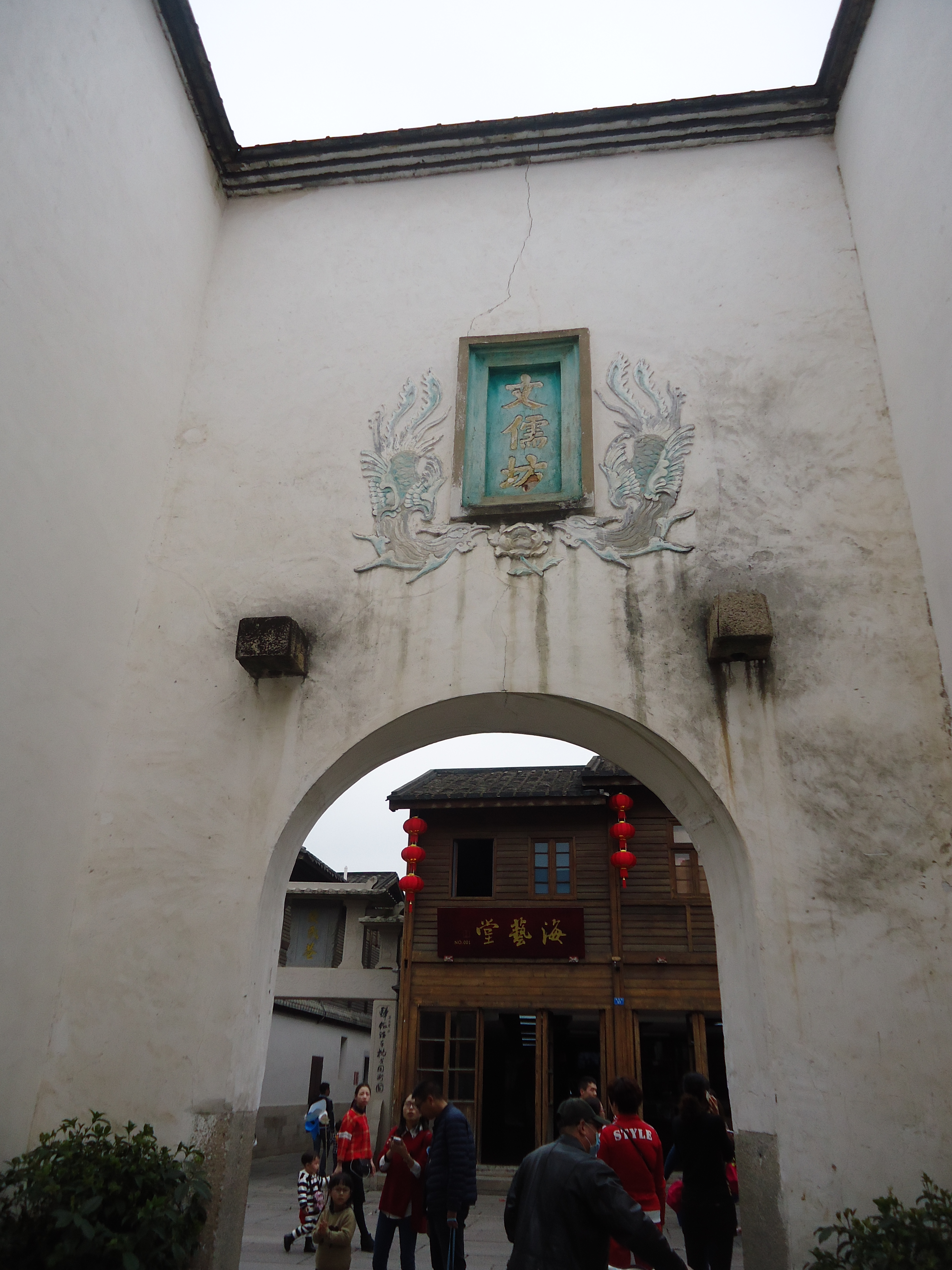 Wenlufang_in_Fuzhou_in_March_21,2015.